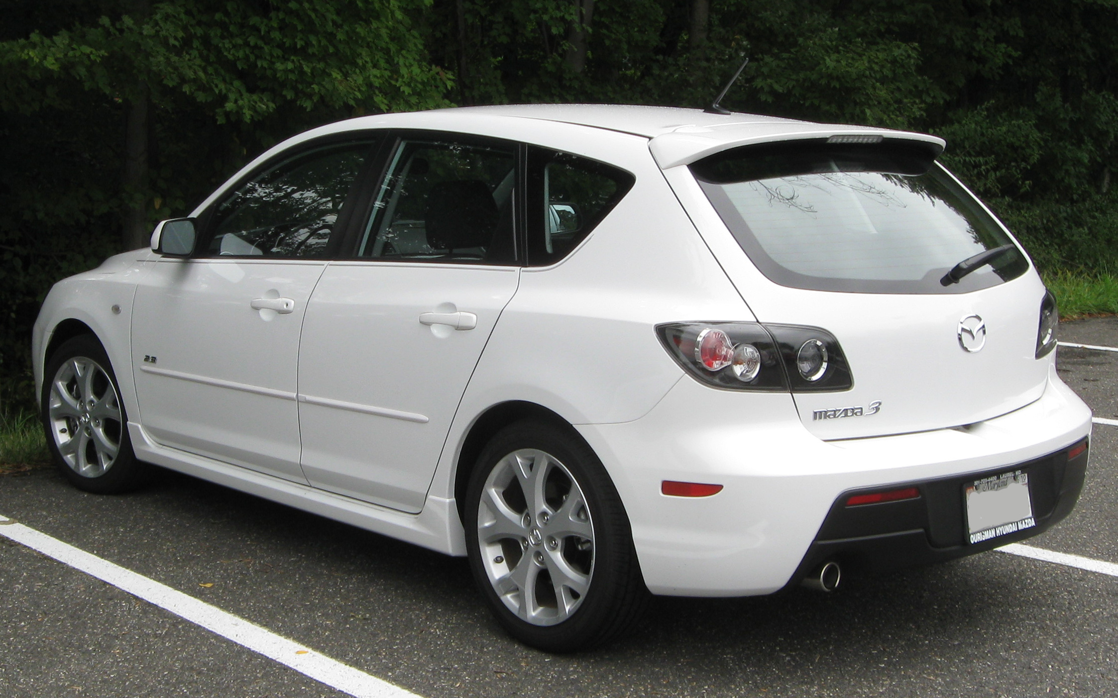 2007-2009 Mazda3 s photographed in College Park, Maryland, USA.